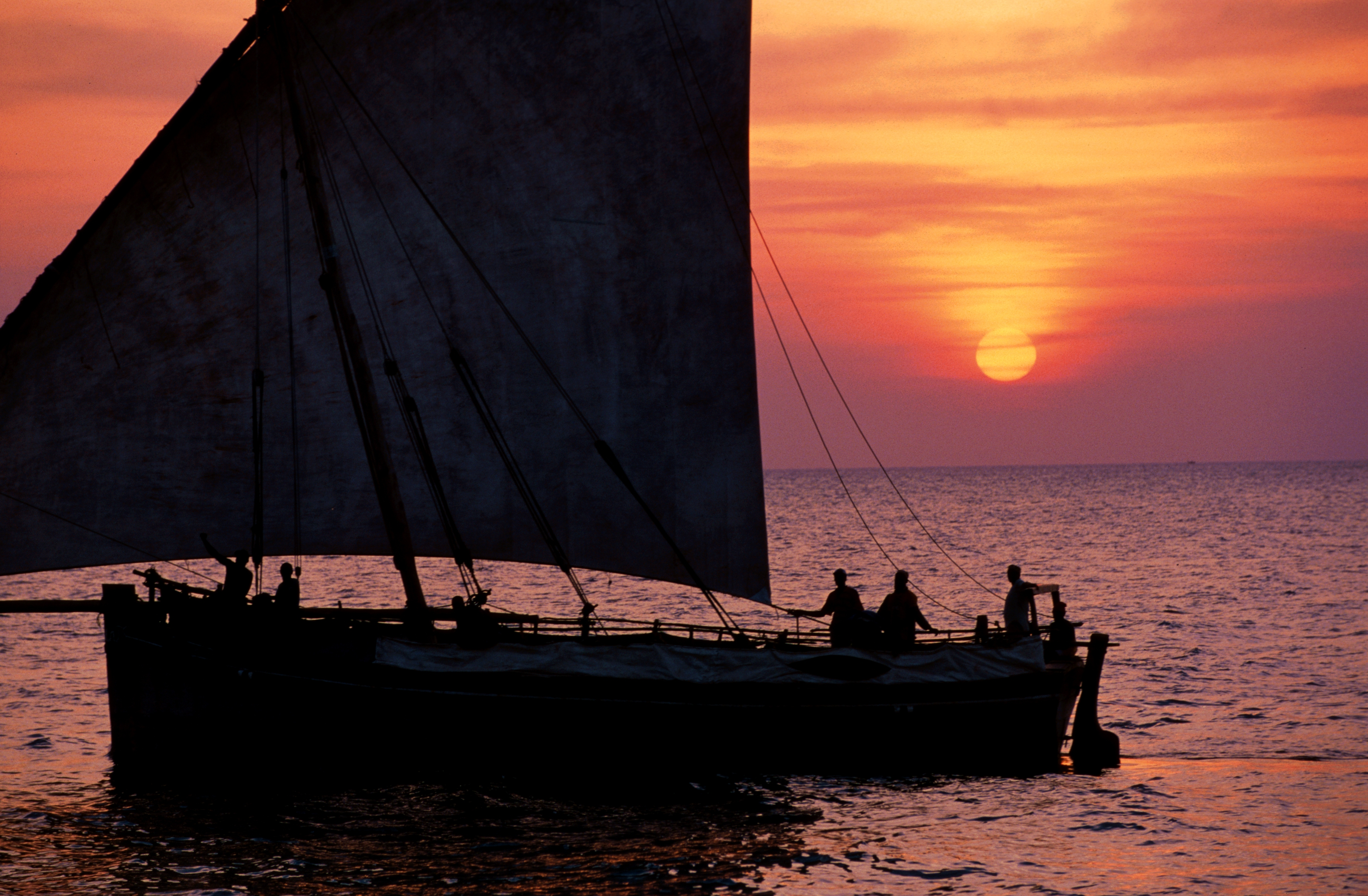 From the balcony of the Serena Inn, Zanzibardhow in sunset